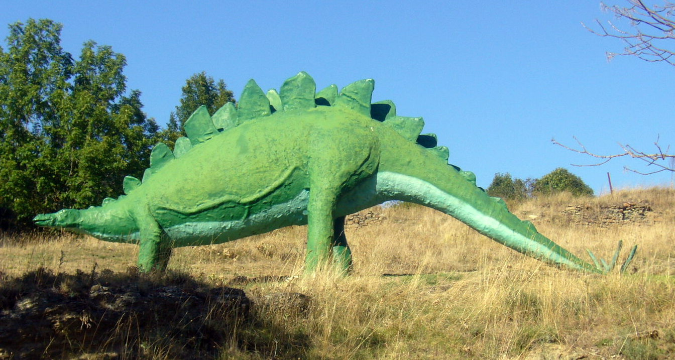 Stegosaurus' recreation in the site of Santa Cruz de Yanguas, Soria, Spain.